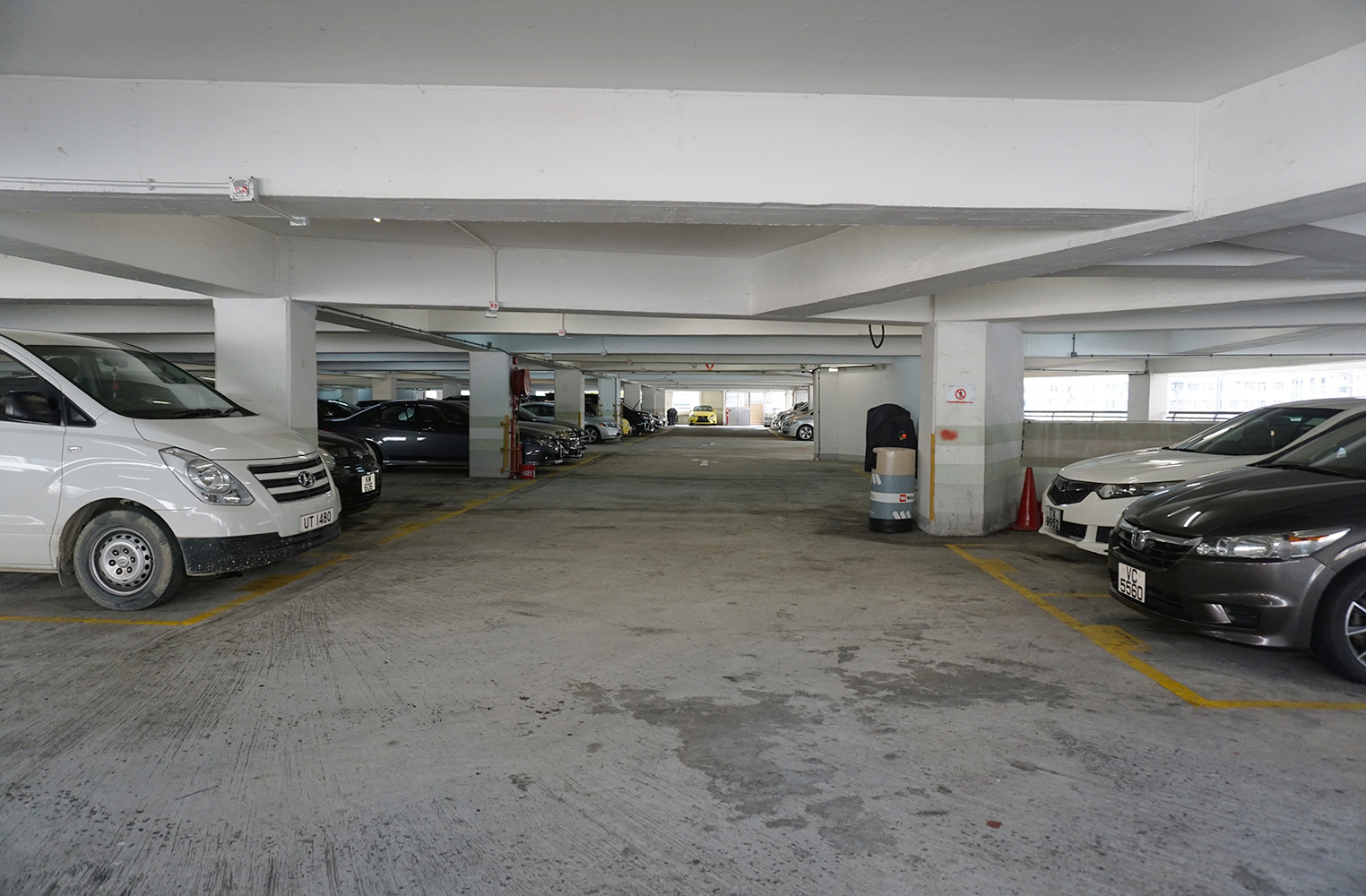 Shek Lei Estate in Kwai Chung, Hong Kong.